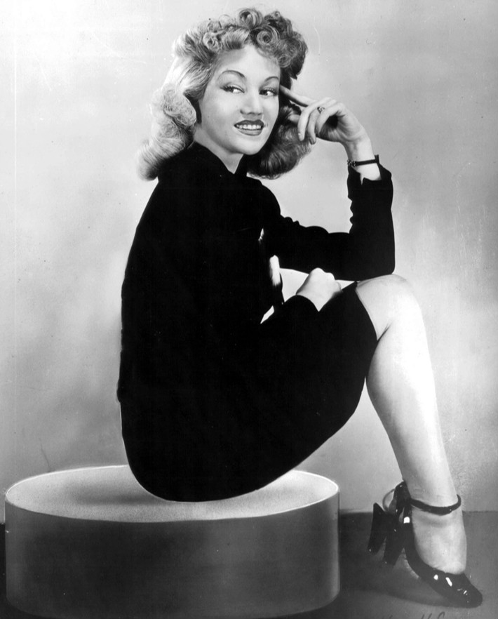 Publicity photo of Paula Stone.